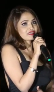 Indira Joshi at song release event of A Mero Hajur 2